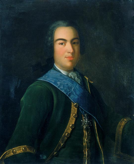 Ivan Alexeevich Dolgorukov (1708-1739)